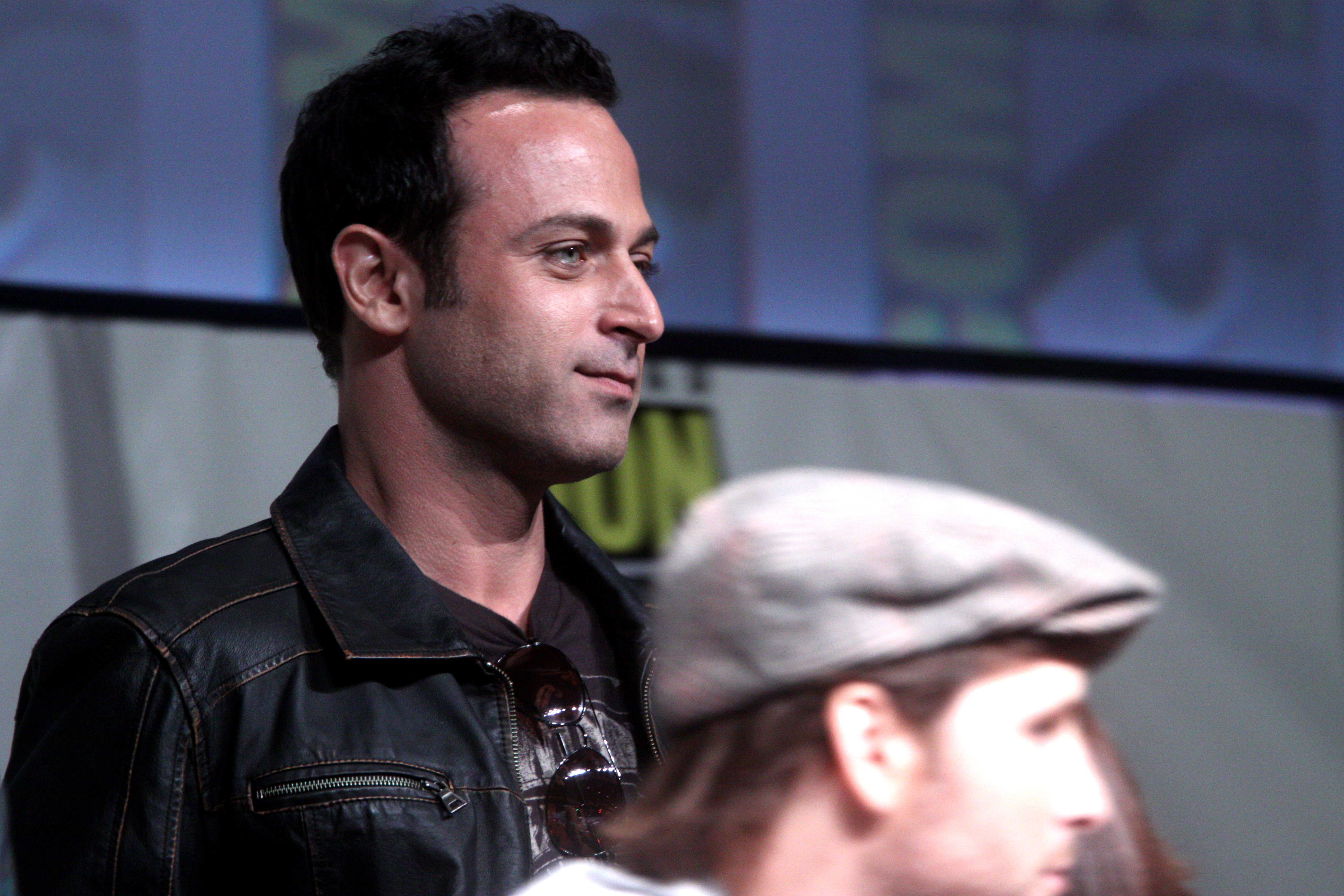 Guri Weinberg speaking at the 2012 San Diego Comic-Con International in San Diego, California.